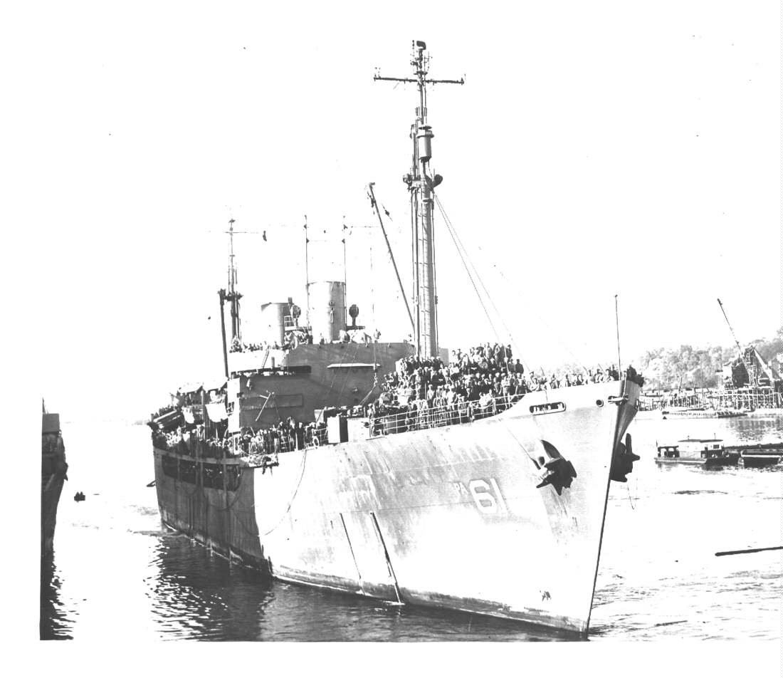 U. S. Navy Gilliam class attack transport USS Barrow (APA-61).